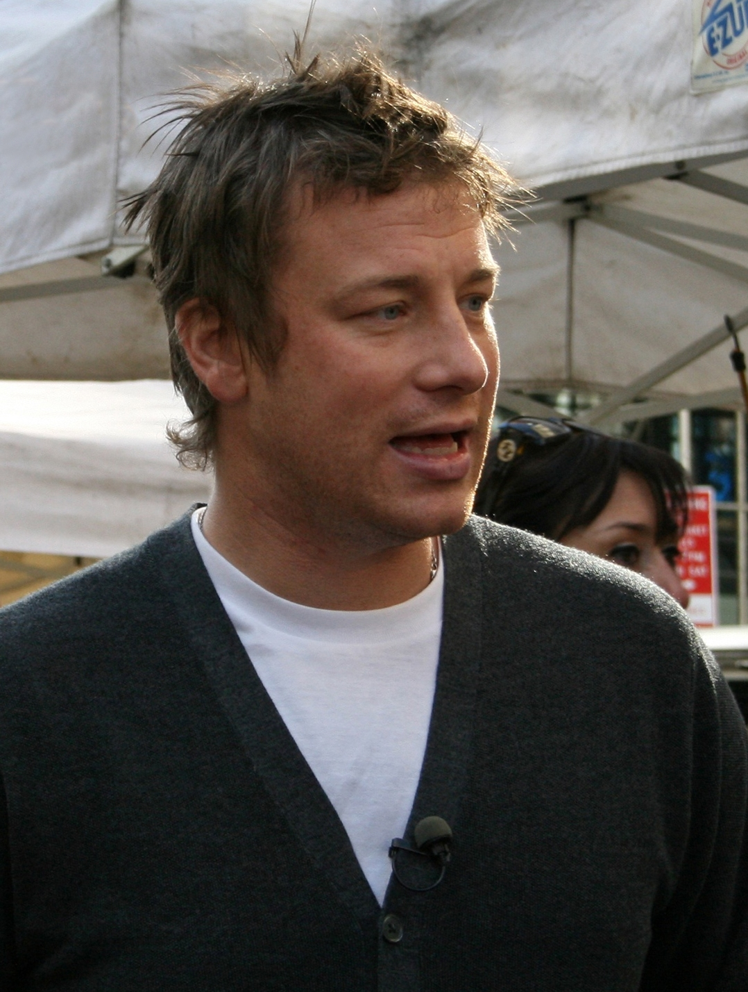 I love the green market. I walk through every morning on the way to work and it smells amazing. It was cuter than usual when Jamie Oliver was there